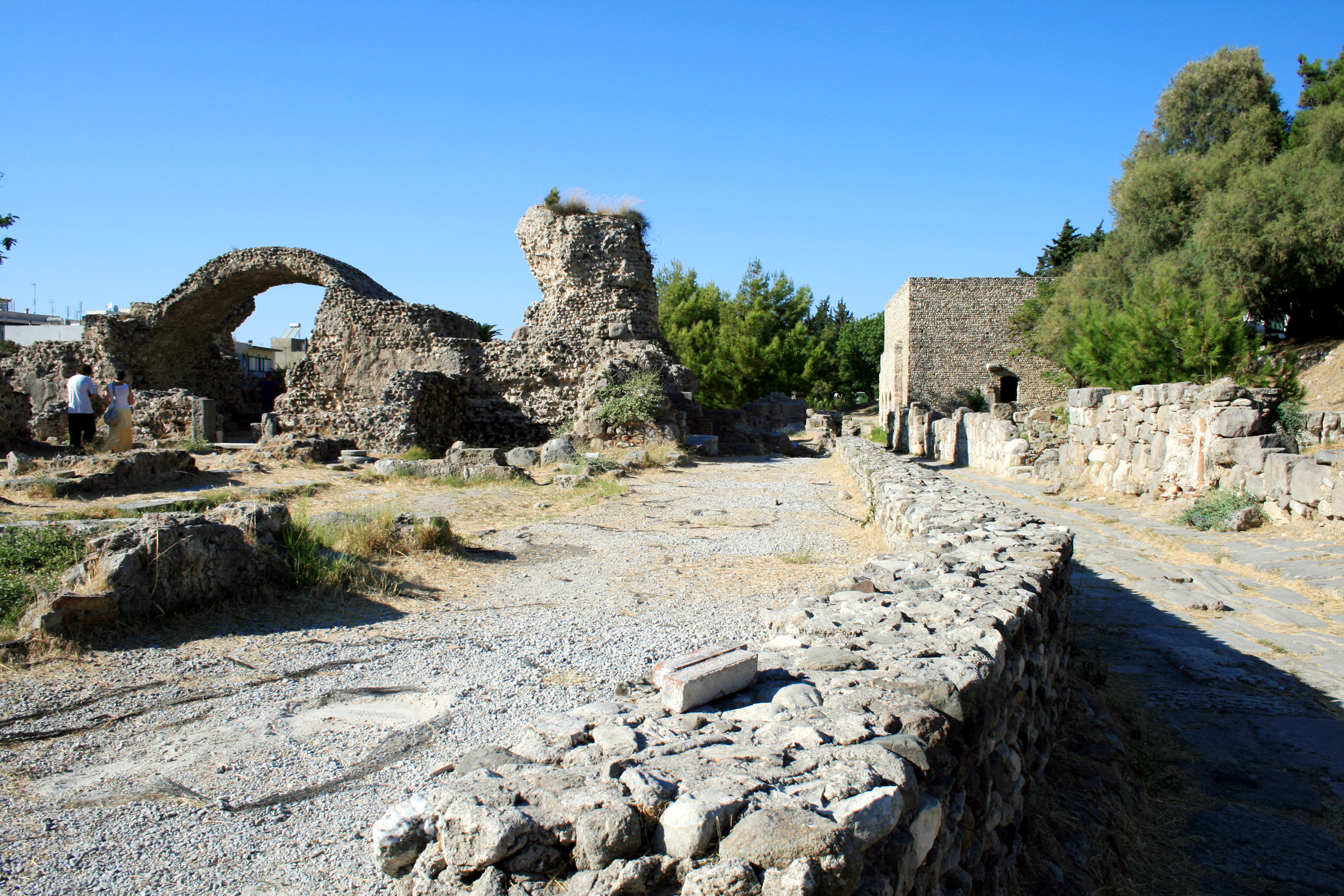 The Western Baths are on the left and the Nymphaeum is on the right separated by the Via Cardo.